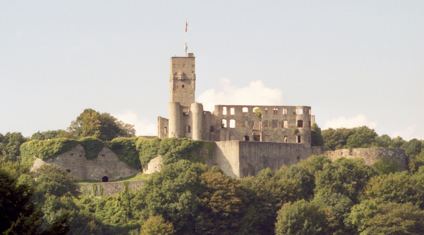 Königstein castle, Taunus, Germany. View from north-eastern direction.